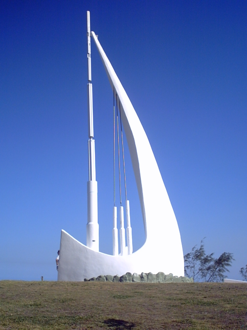 The Singing Ship monument in Emu Park, Queensland for Capt. James Cook --- it really sings, well makes whiny noise in the wind -- Photo by User:ZayZayEM